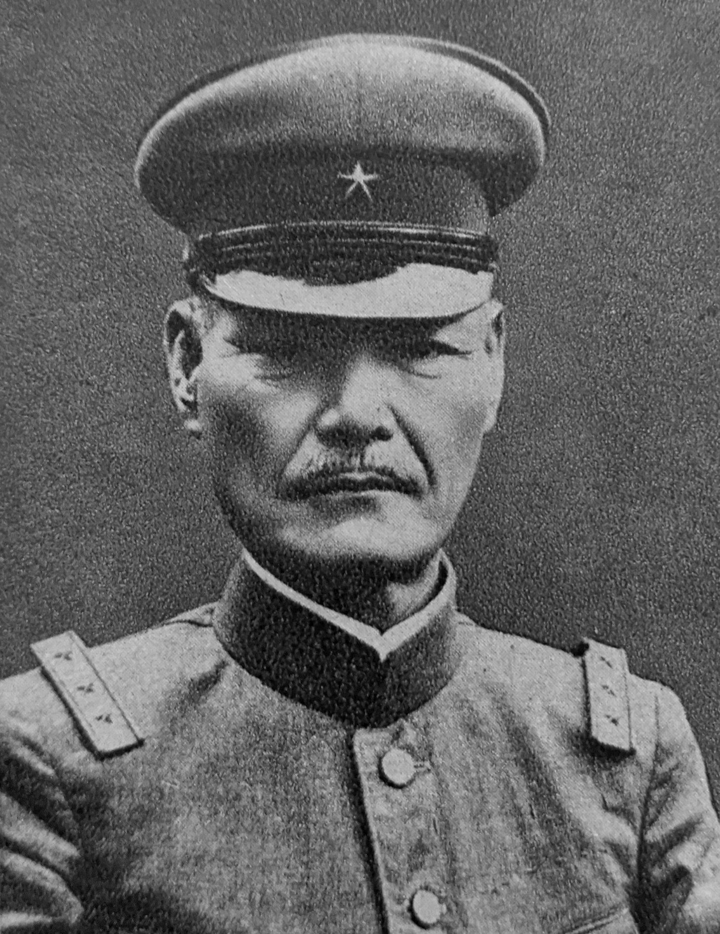 Kawashima Yoshiyuki, Japanese Minister of War, 1935-36.